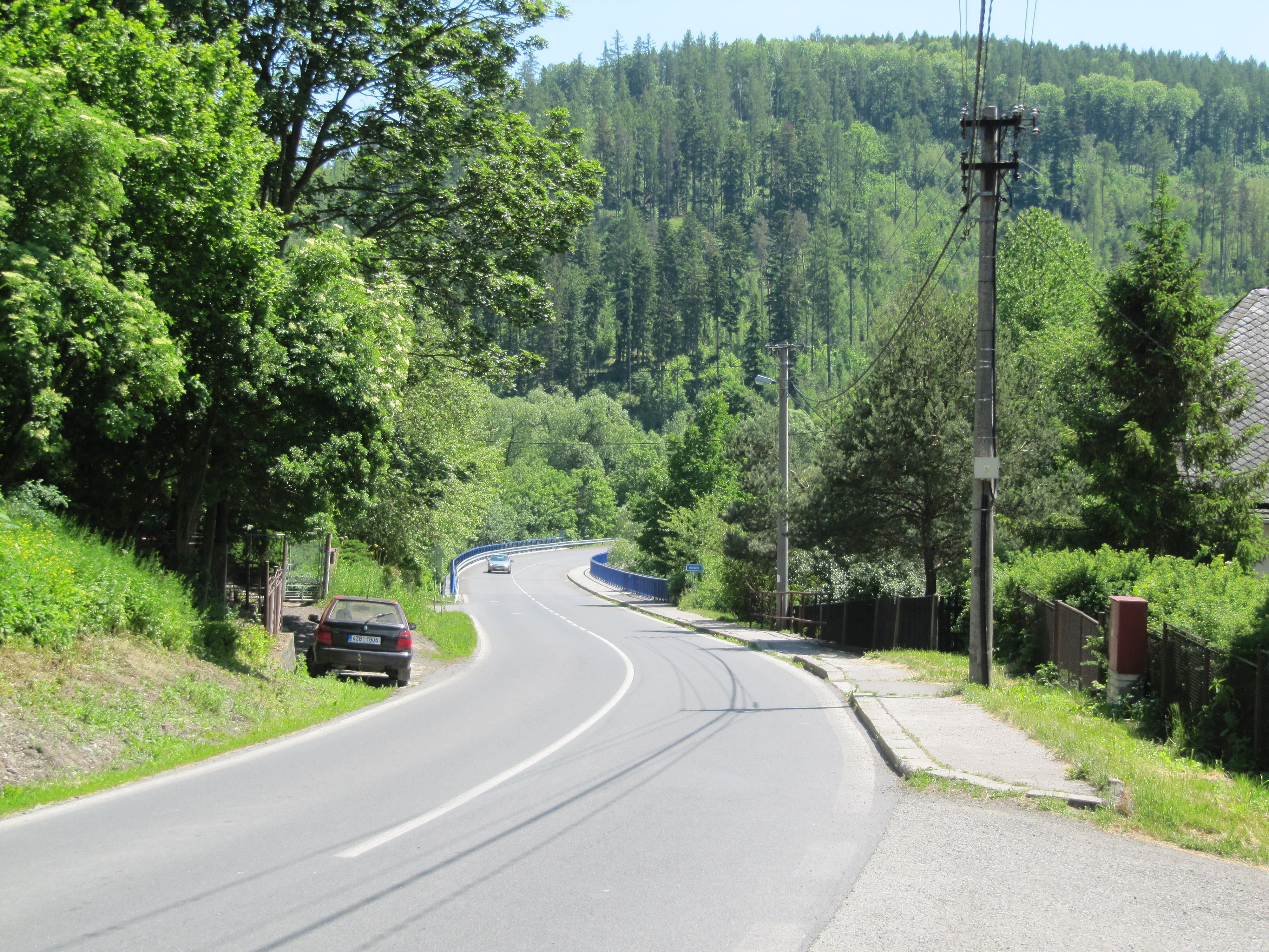 Vítkov, Opava District, Czech Republic, part Zálužné.